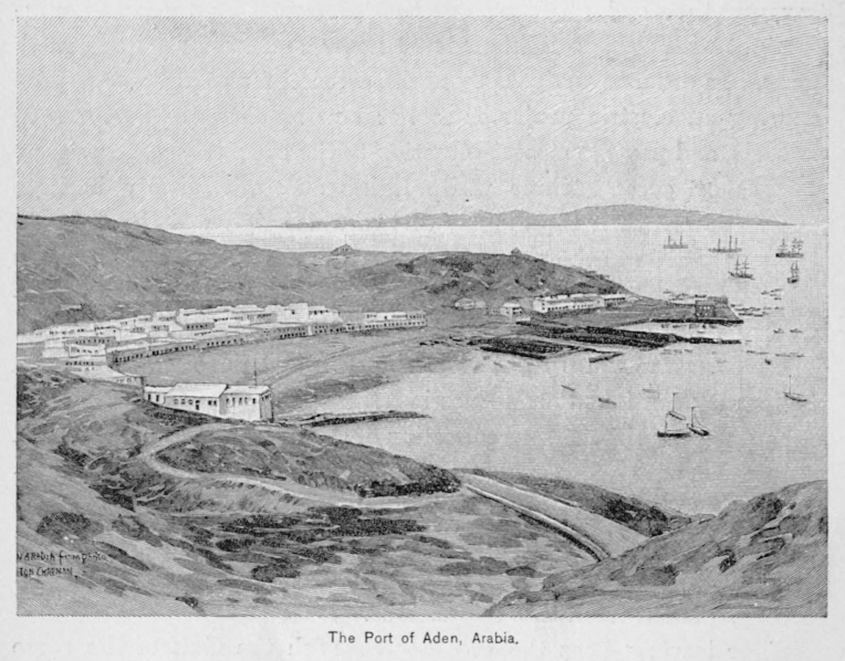 The Port of Aden, Arabia. ca. 1891